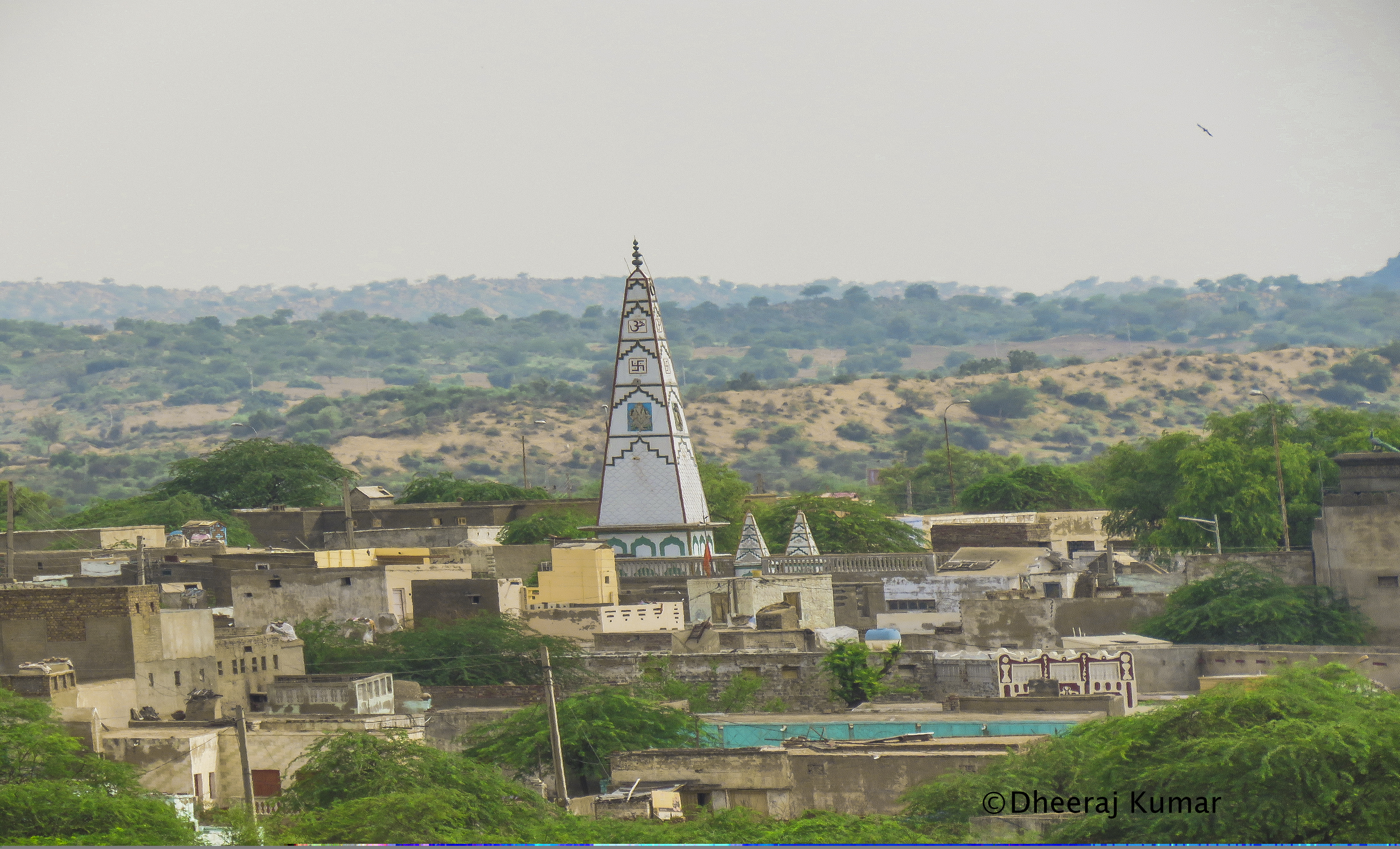 temple/mandir in chelhar